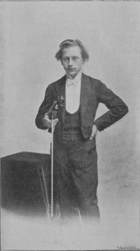 Portrait of Jaroslav Kocian (1883-1950), Czech violinist.